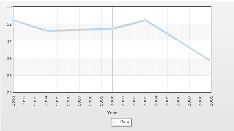 Peru poverty graph